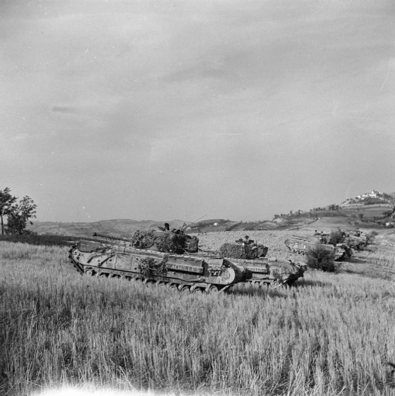 The British Army in Italy 1944 Churchill tanks of 51st Royal Tank Regiment lined up below a crest near the River Foglia, 30 August 1944. The tanks were supporting infantry of 139th Brigade attacking across the river.